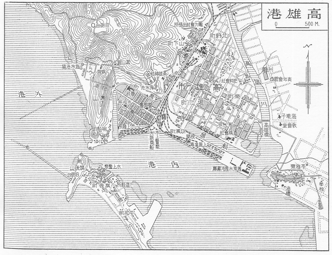 Takao(Kaohsiung) map circa 1930